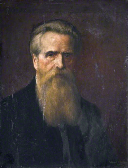 Self portrait oil on canvas 69.1 x 53.5 cm 1906